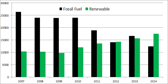 Net electricity generation from renewable and fossil fuel sources 2007-2014. Data in GWh.